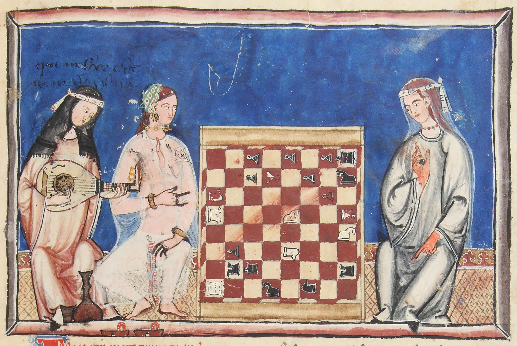 Miniature from Alfonso X's Libro del axedrez dados et tablas (Book of chess, dices and tables), c. 1283. Moorish women in Arab clothes playing chess [Petzold 1986:80]. European woman in headscarf, playing an oud or lute. Alfonso X was the King of Castile, León and Galicia from 30 May 1252 until his death in 1284. Book is kept at the St. Lorenze del Escorial, Madrid.